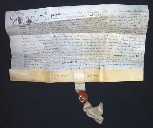 An English deed hand-written on fine vellum with large pine resin seal - dated 1638.